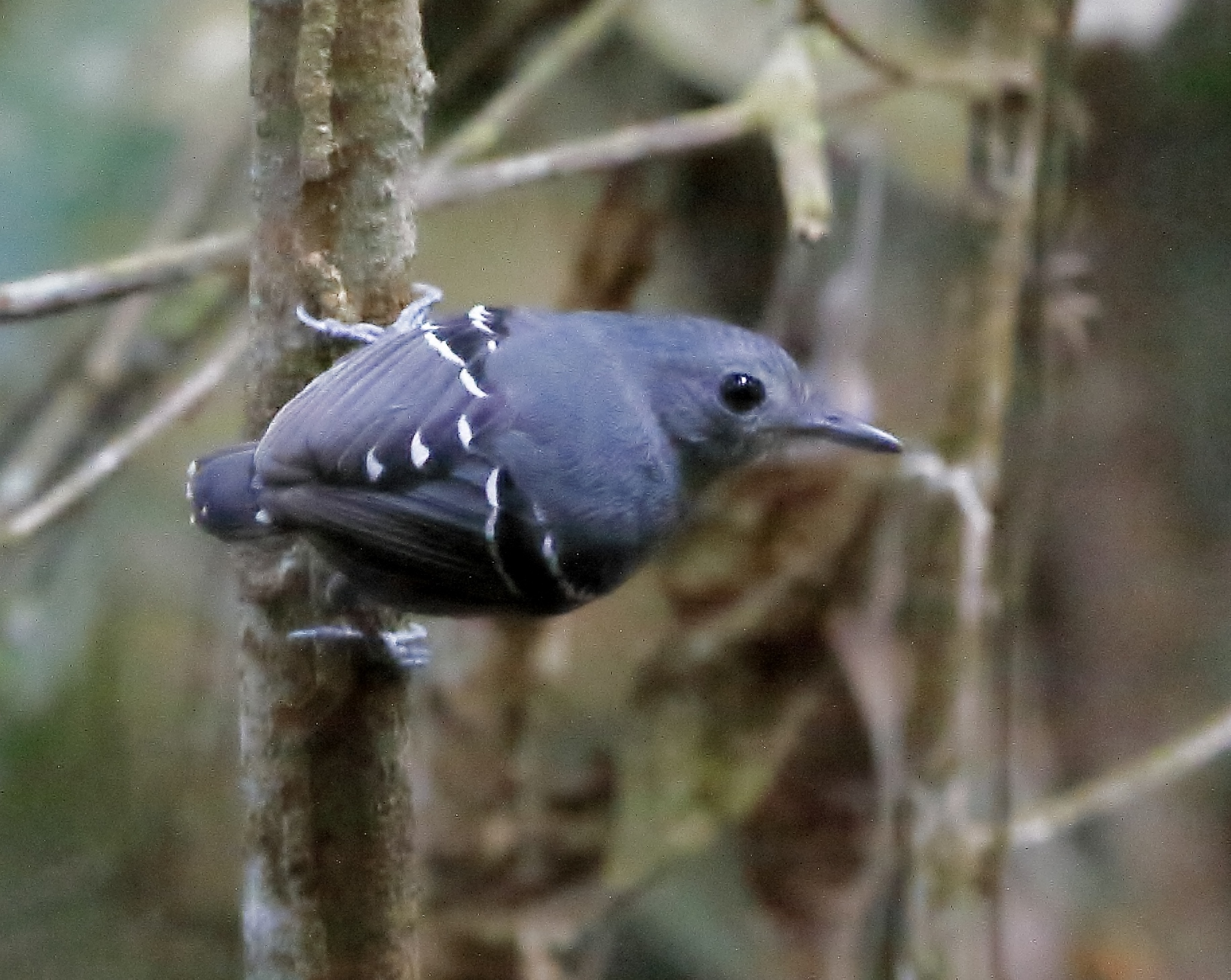 Plain-throated antwren (male) at Floresta Nacional de Carajás - Pará - Brazil